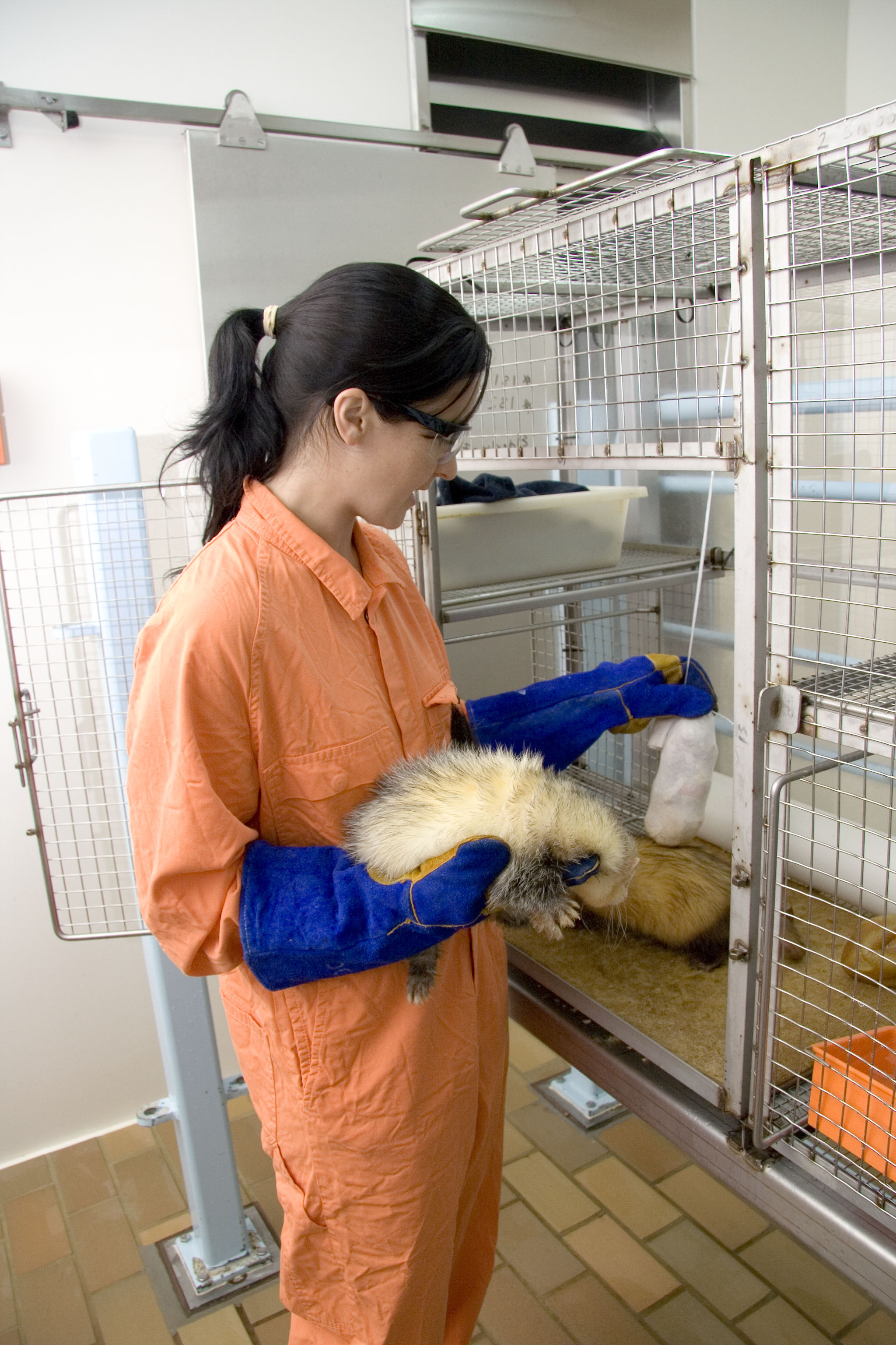 CSIRO animal technician with ferrets in the animal facilities within the high biocontainment area of CSIRO's Australian Animal Health Laboratory (AAHL) in Geelong